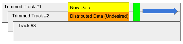 SMR Shingled Magnetic Recording Track Update Rewrite